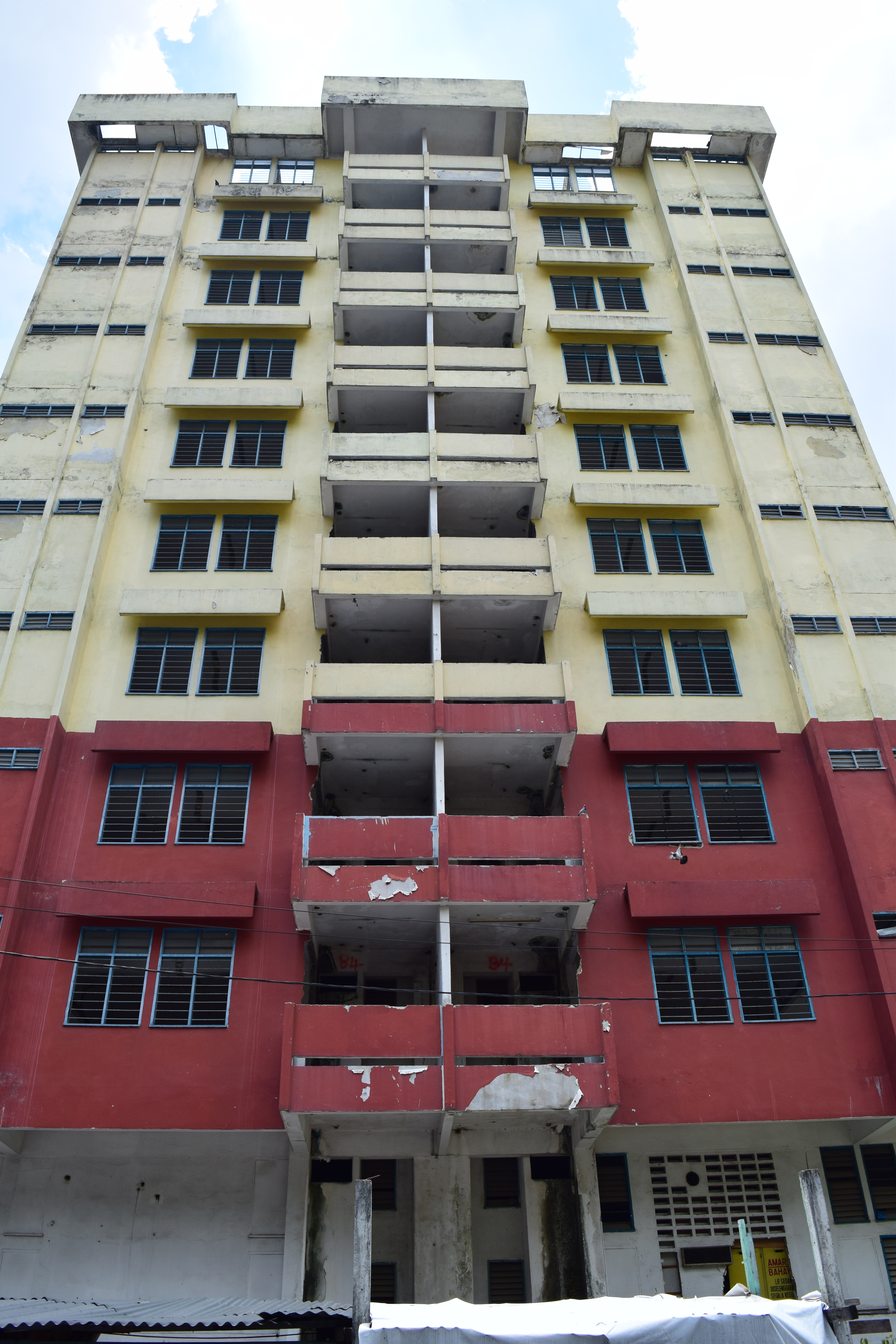 Front View of 9 Storey Flat